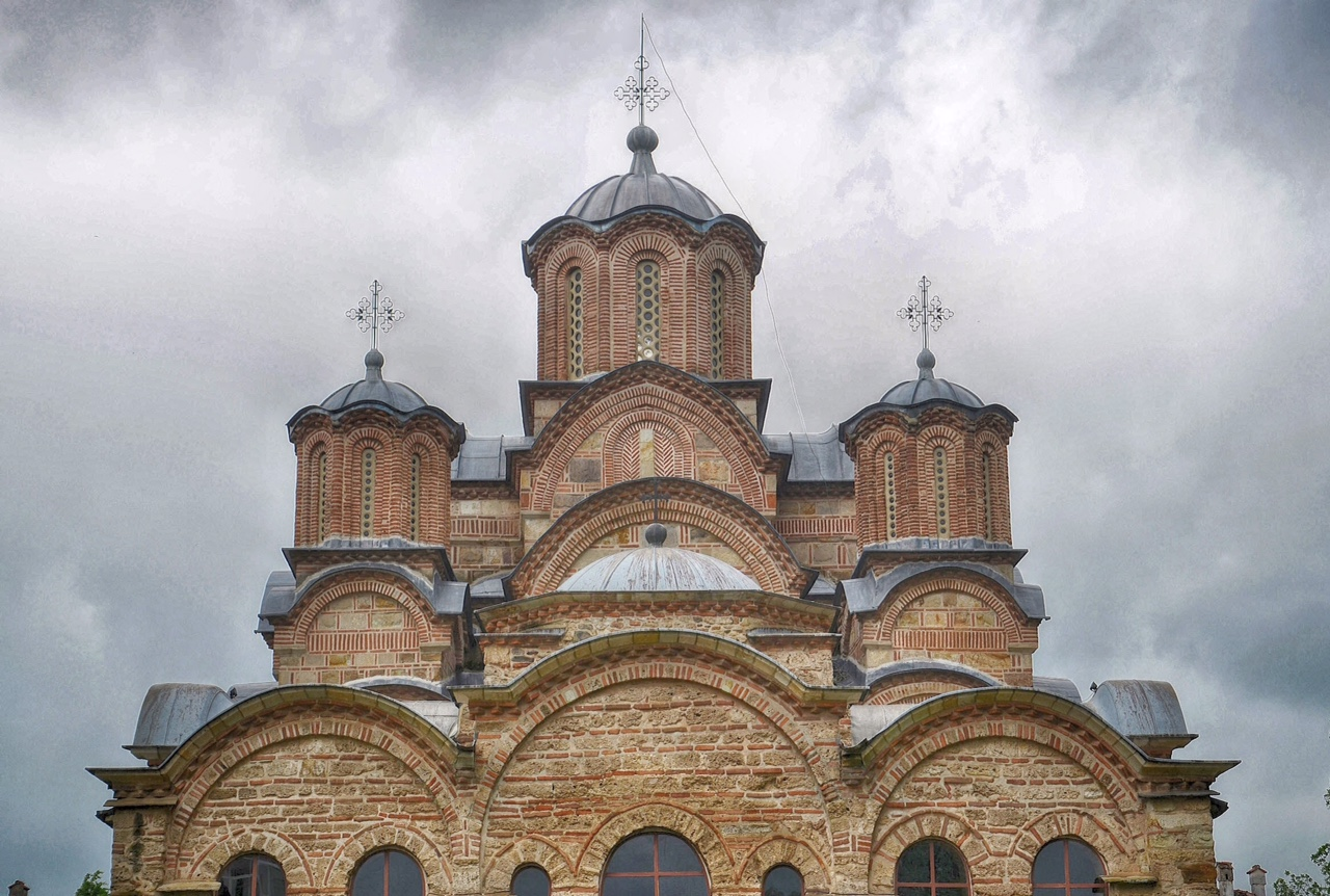 The Gračanica Monastery in Kosovo